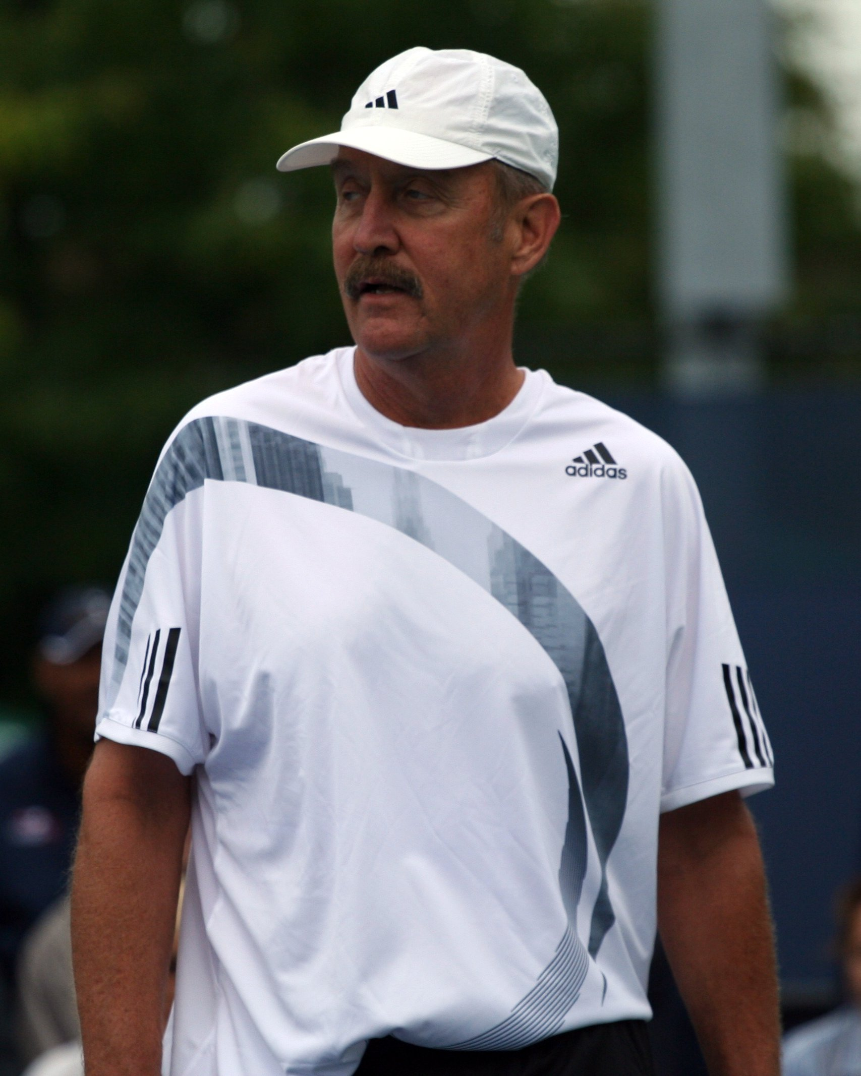 U.S. Open Champions Team Tennis Thursday, Sept. 10, 2009